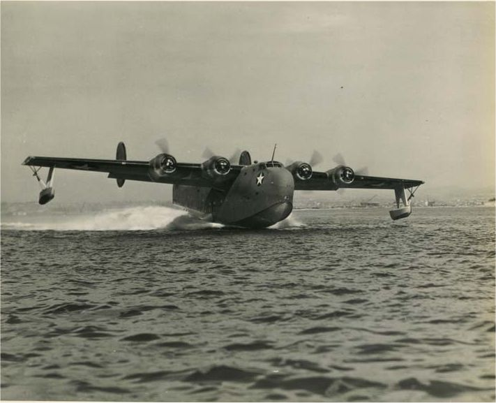 A Consolidated PB2Y-5R Coronado of taking off. The photo was published in April 1943. Original description: "The Coronado (PB2Y), a four-engine flying boat built for the U.S. Navy, is also used by the British Coastal Command. Also a product of Consolidated Vultee, it is the largest and most powerful plane in the Navy service."